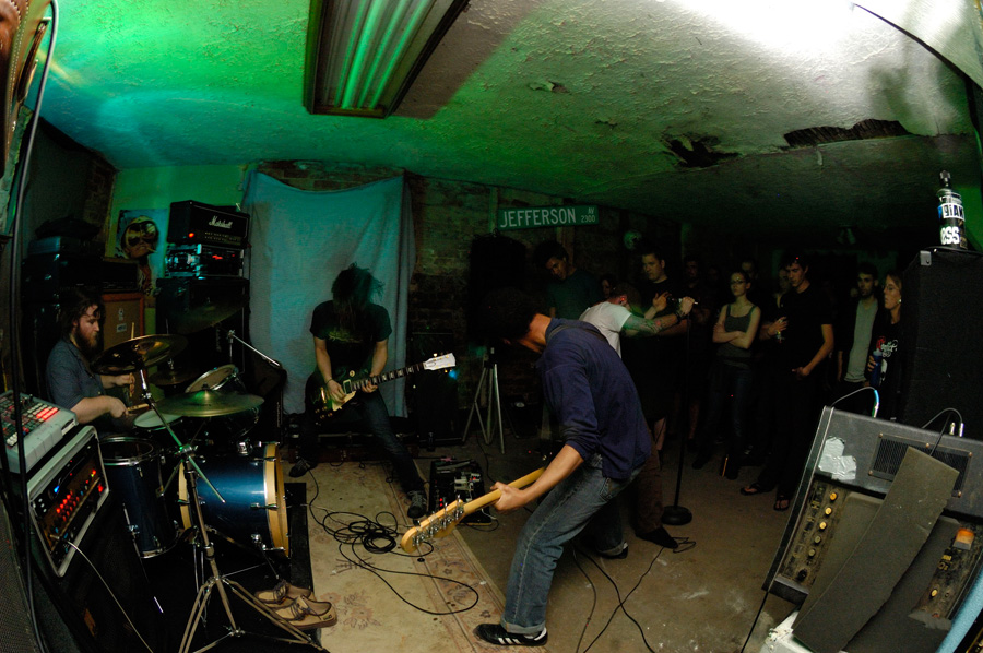 Rosetta, in Richmond, VA on 5/24/2008.